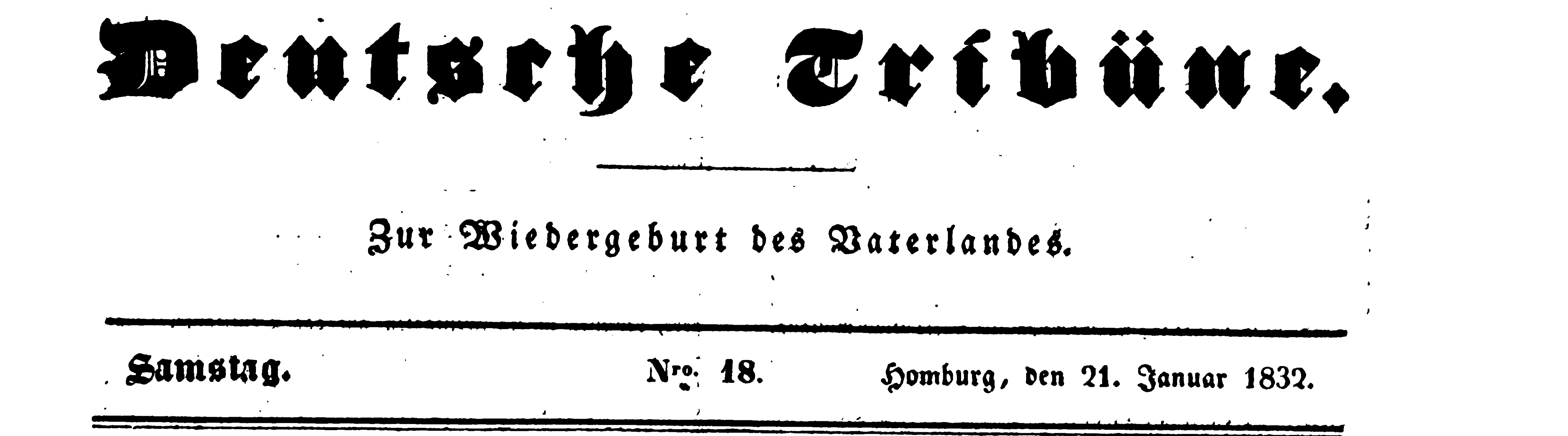 German newspaper "Deutsche Tribüne" #18 - Frontcover (part)